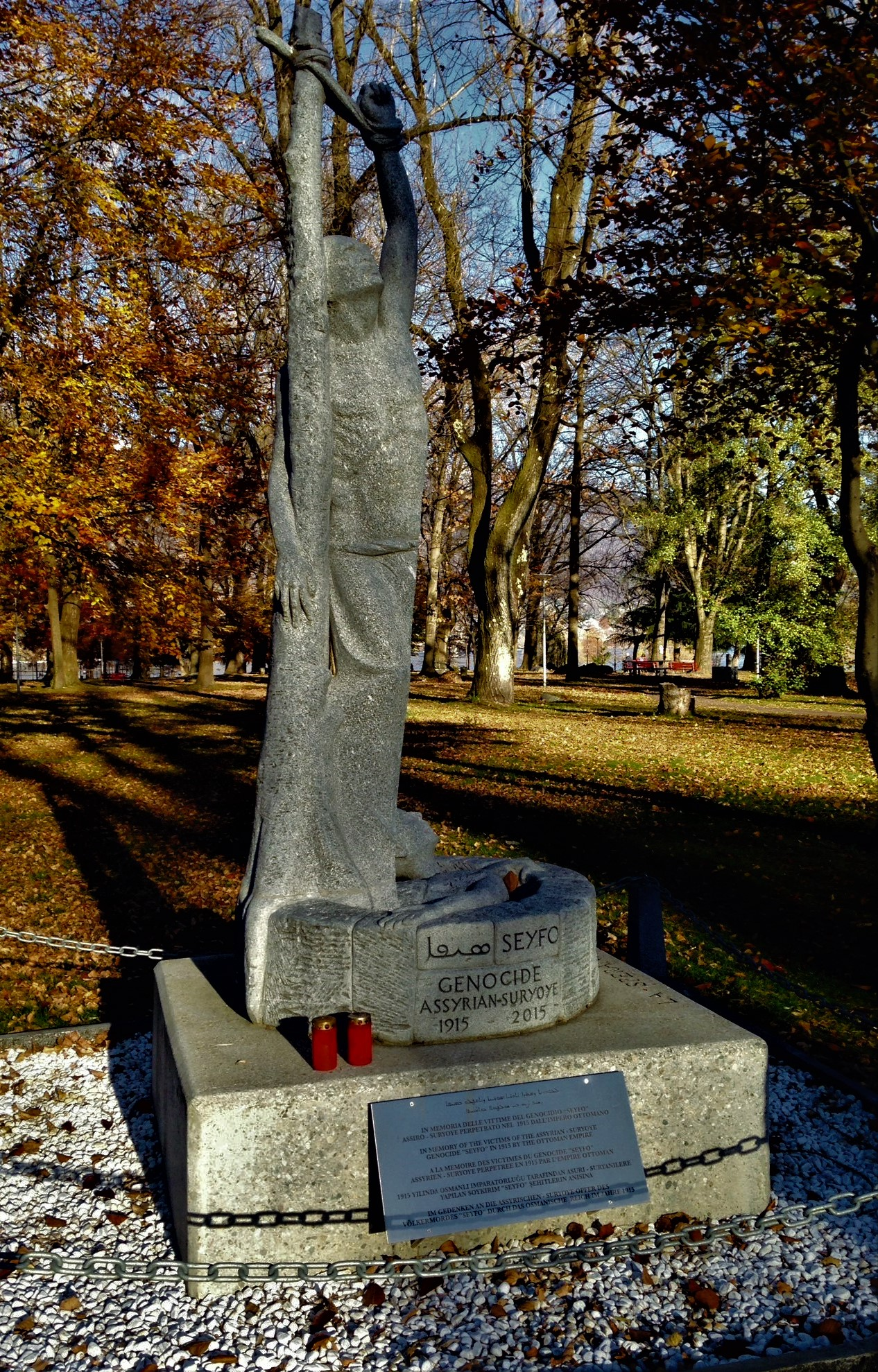 Memorial for the victims of the Assyrian-Suryoye genocide "Seyfo" in 1915. It is placed in a Peace Park (Parco della Pace).